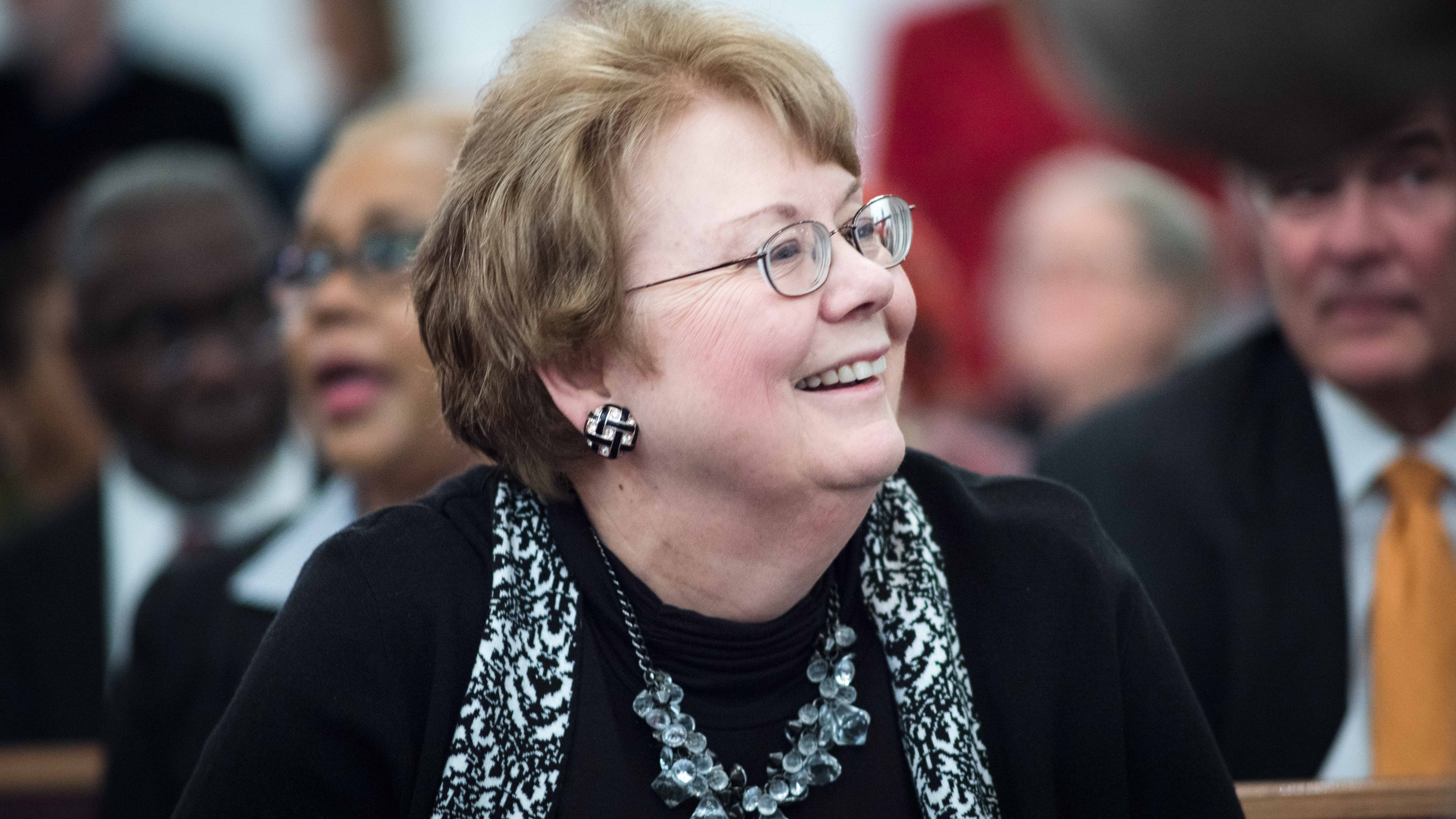 University of Virginia president Teresa A. Sullivan at Mt. Zion First African Baptist Church, in Charlottesville, Virginia, during a ceremony commemorating the legacy of Dr. Martin Luther King.